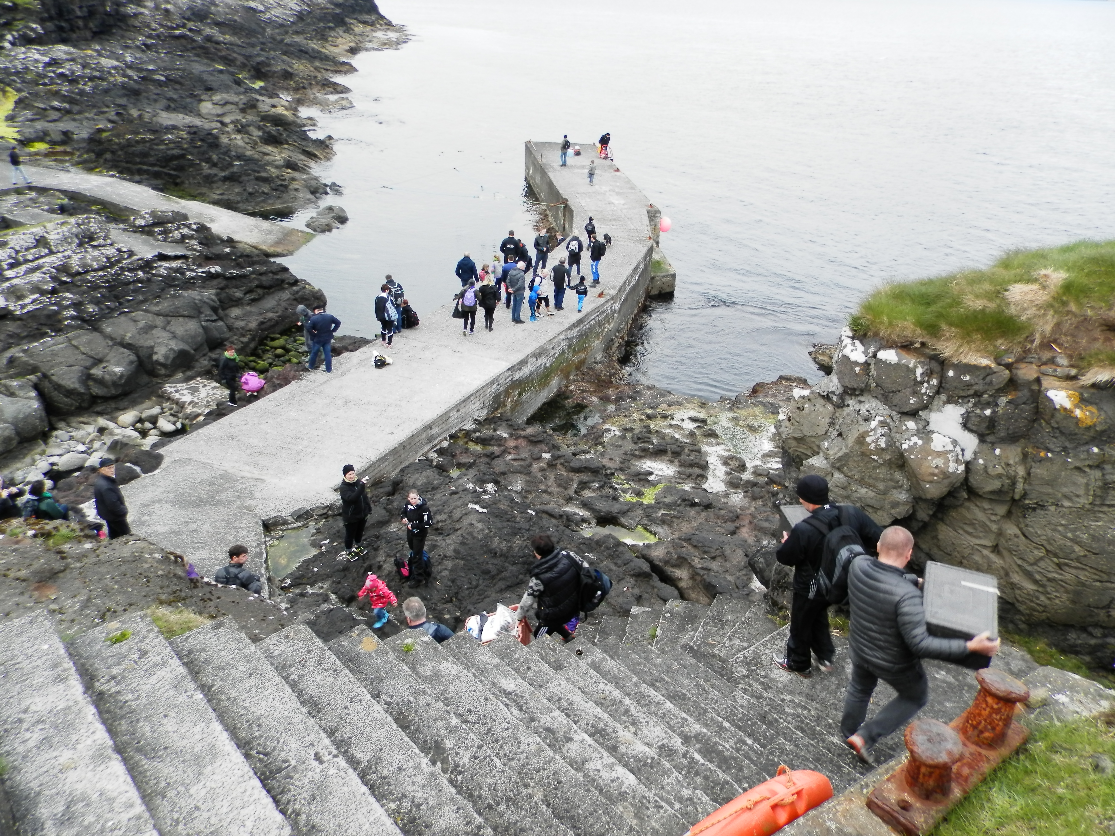 Koltur is one of the smallest islands of the Faroe Islands, the smallest of the inhabited islands. The population as of 2014 is 1 person. The island covers 2,31 km².Føroyskt: Koltur er ein oyggj og bygd í Føroyum. Í 2014 búði bert ein persónur í Koltri. Býlingurin Heimi í Húsi er blivin umvældur síðan 2009 til tað ið hann upprunaliga hevur verið.